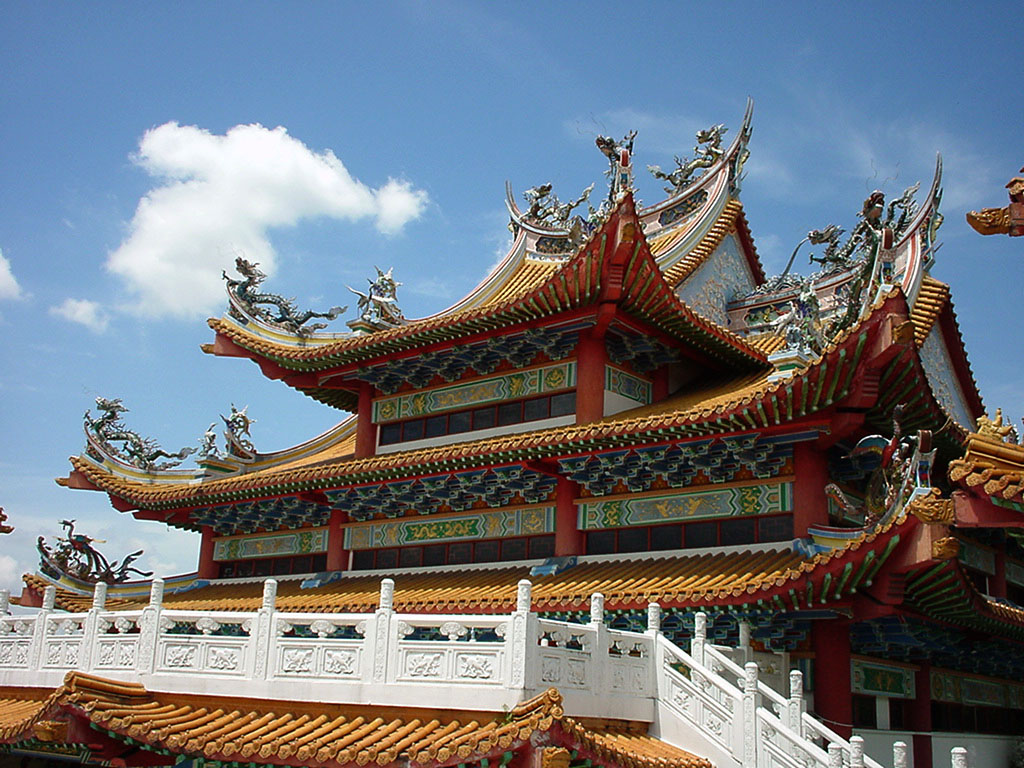 The Thean Hou Temple in Kuala Lumpur, Malaysia